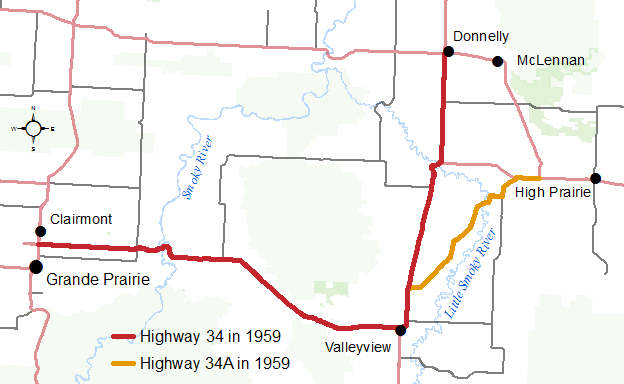 Alignment of former Highways 34 and 34A in 1959 within Alberta in relation to nearby destination communities and the current provincial highway system within other base features including hydrography, provincial parks and the provincial green and white zones.